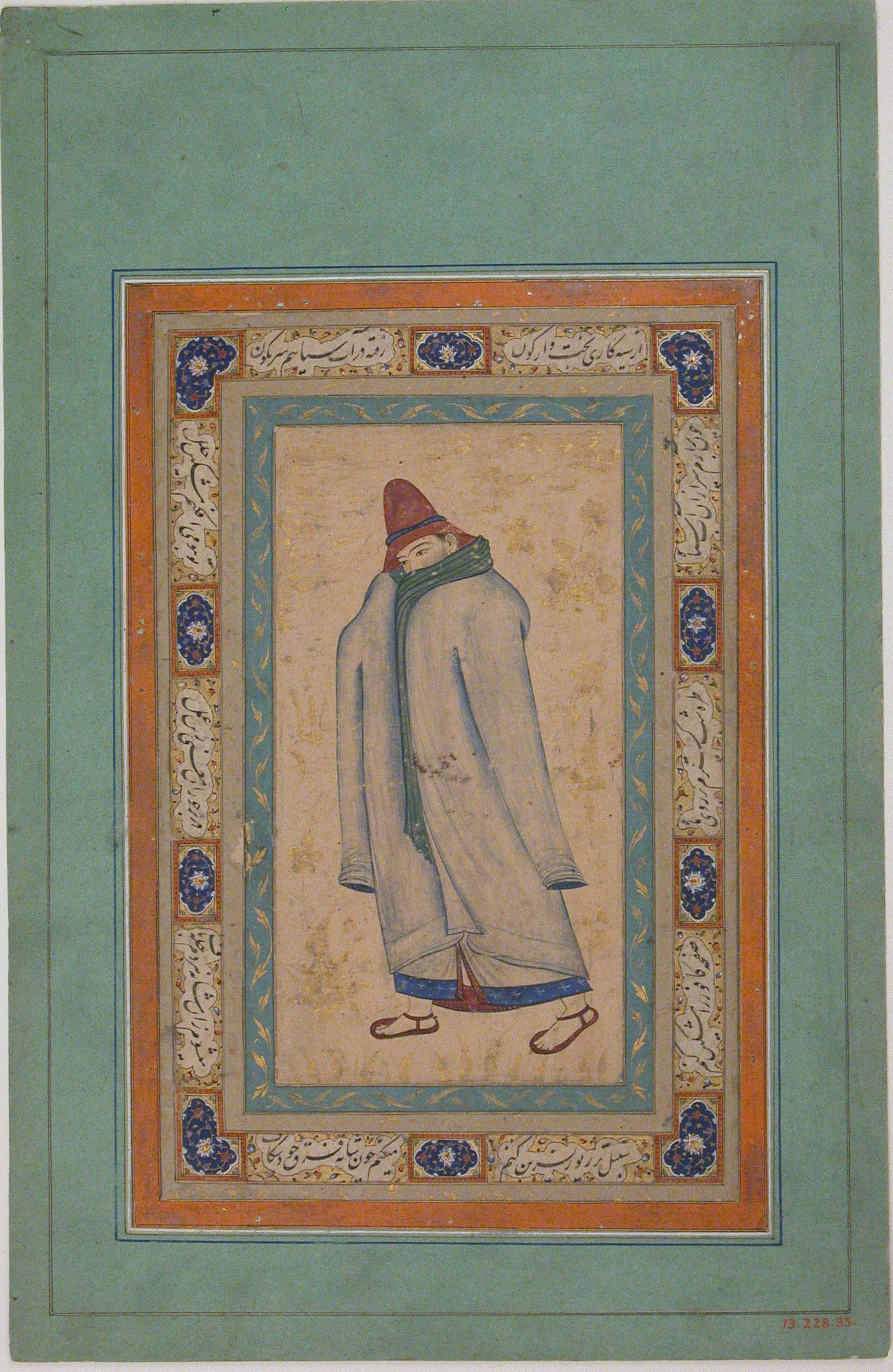 Illustrated album leaf or single work; Codices